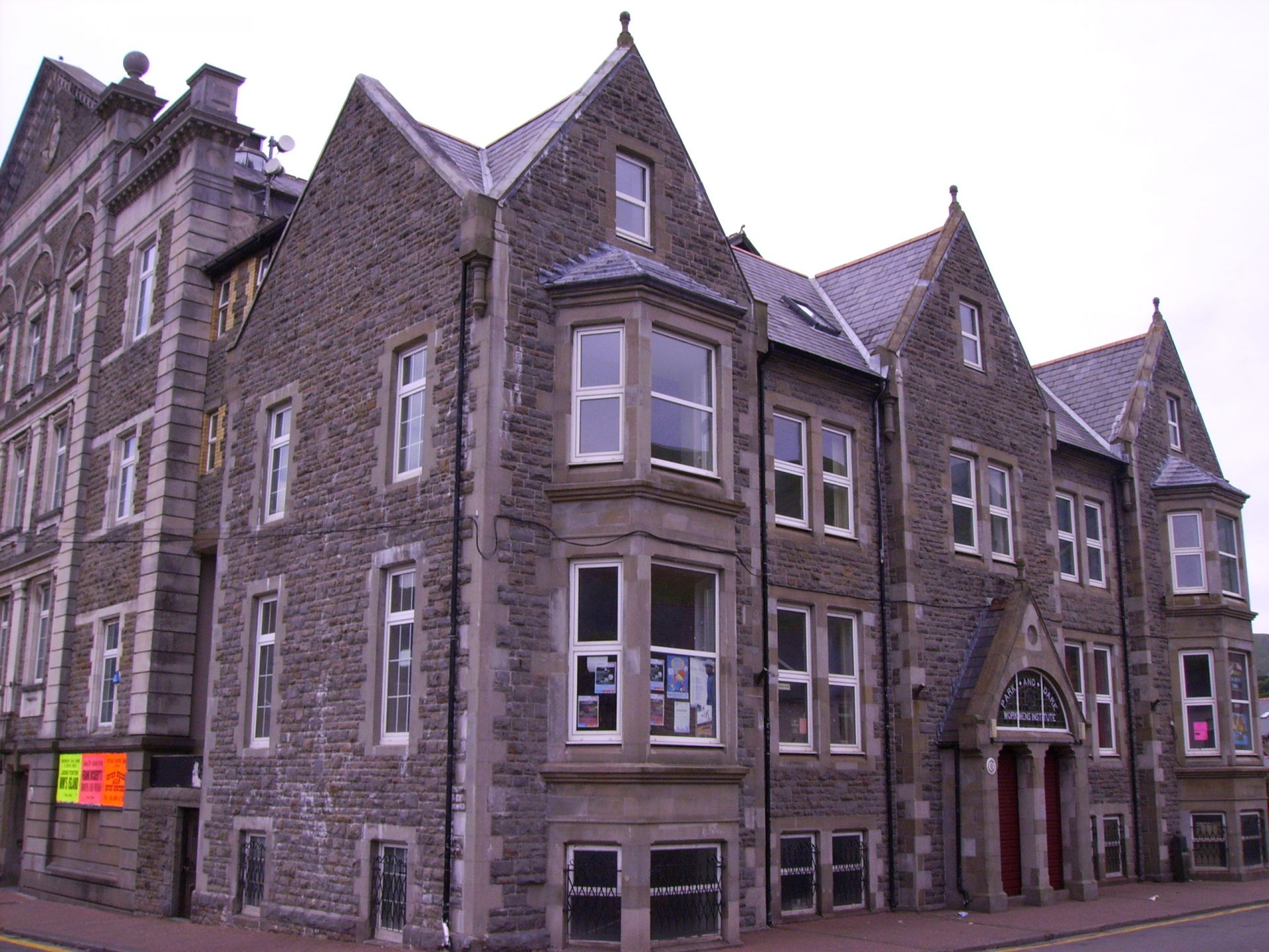 Parc and Dare Workingmans Hall, Theatre, Treorchy, Rhondda. South Wales.